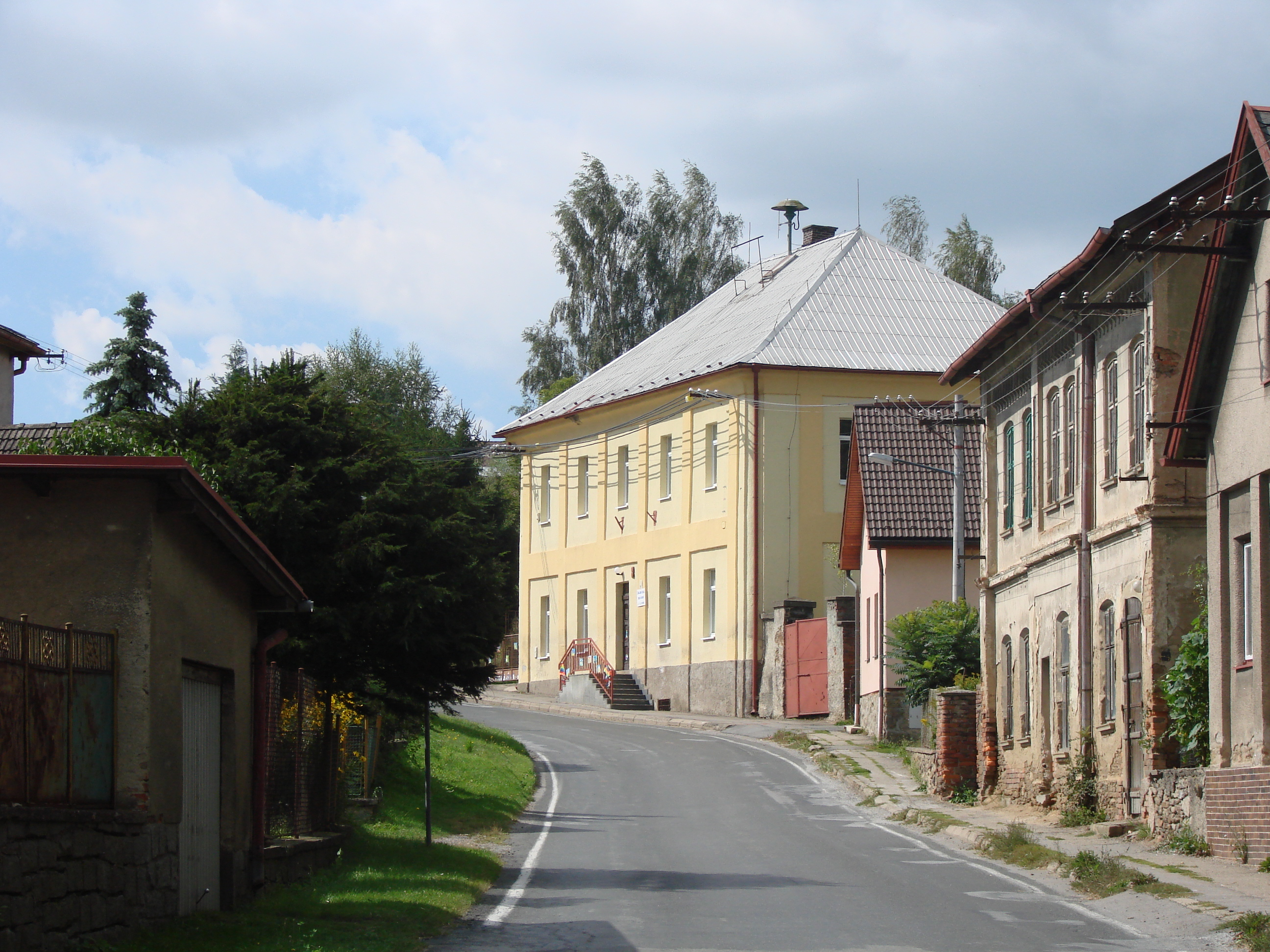 A basic school in the village of Dolní Krupá, Havlíčkův Brod District, the Vysočina Region, the Czech Republic.